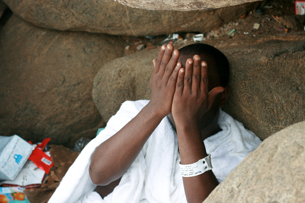 A man is praying on Mount Arafat